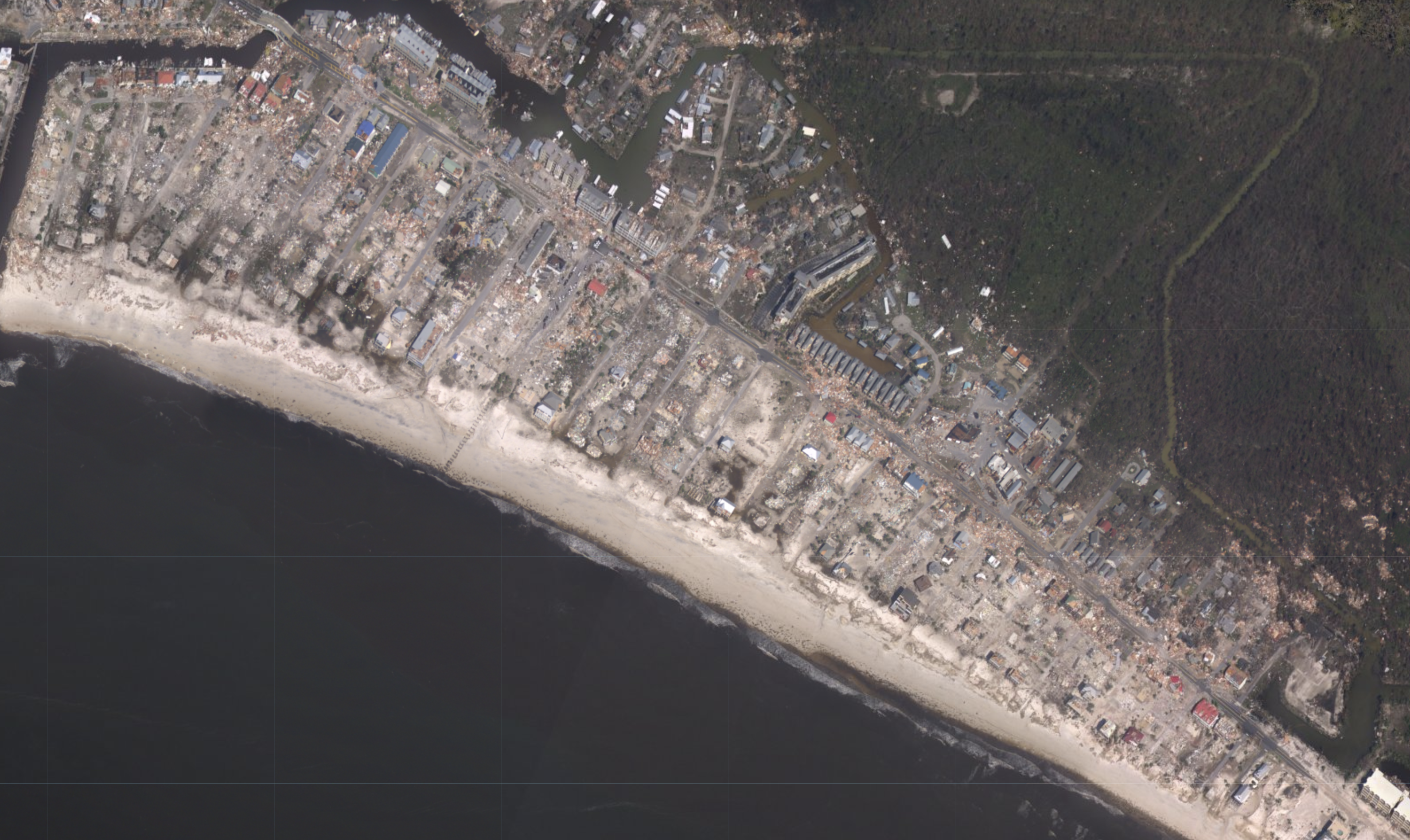 Aerial view of catastrophic damage in Mexico Beach, Florida which suffered a direct hit from Hurricane Michael on October 10, 2018